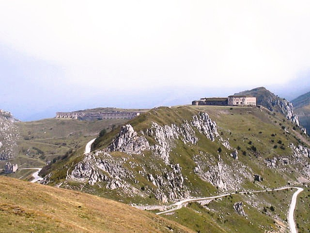 Picture of the Tenda Pass 19th Century forts, on the Maritime Alps border between Italy and France.